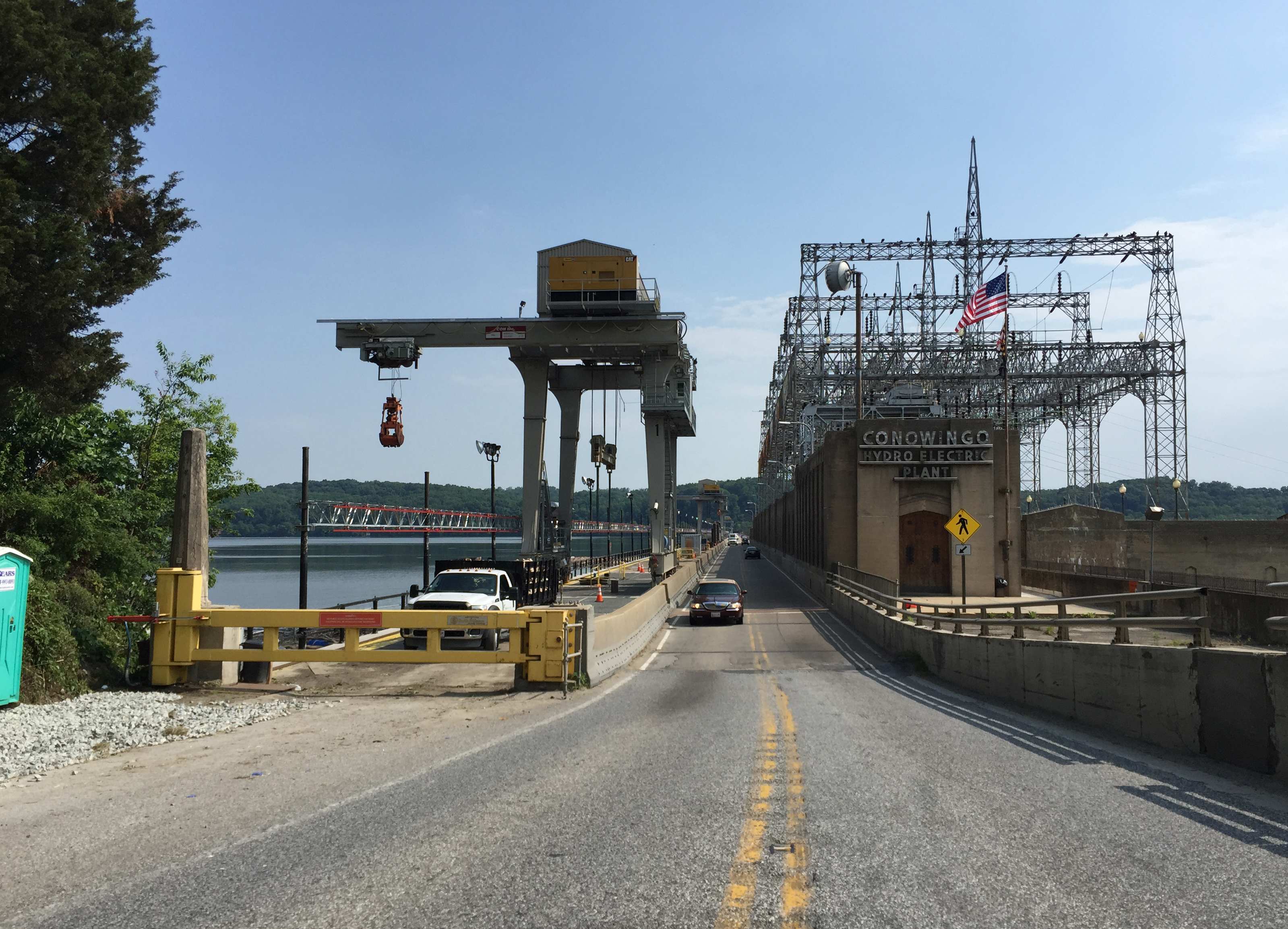 View north along U.S. Route 1 (Conowingo Road) in northeastern Harford County, Maryland, approaching the southwest end of the Conowingo Dam on the Susquehanna River